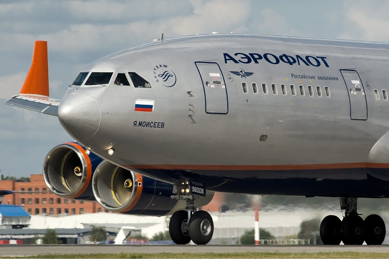 Aeroflot Ilyushin Il-96-300 "Yakov Moiseyev"